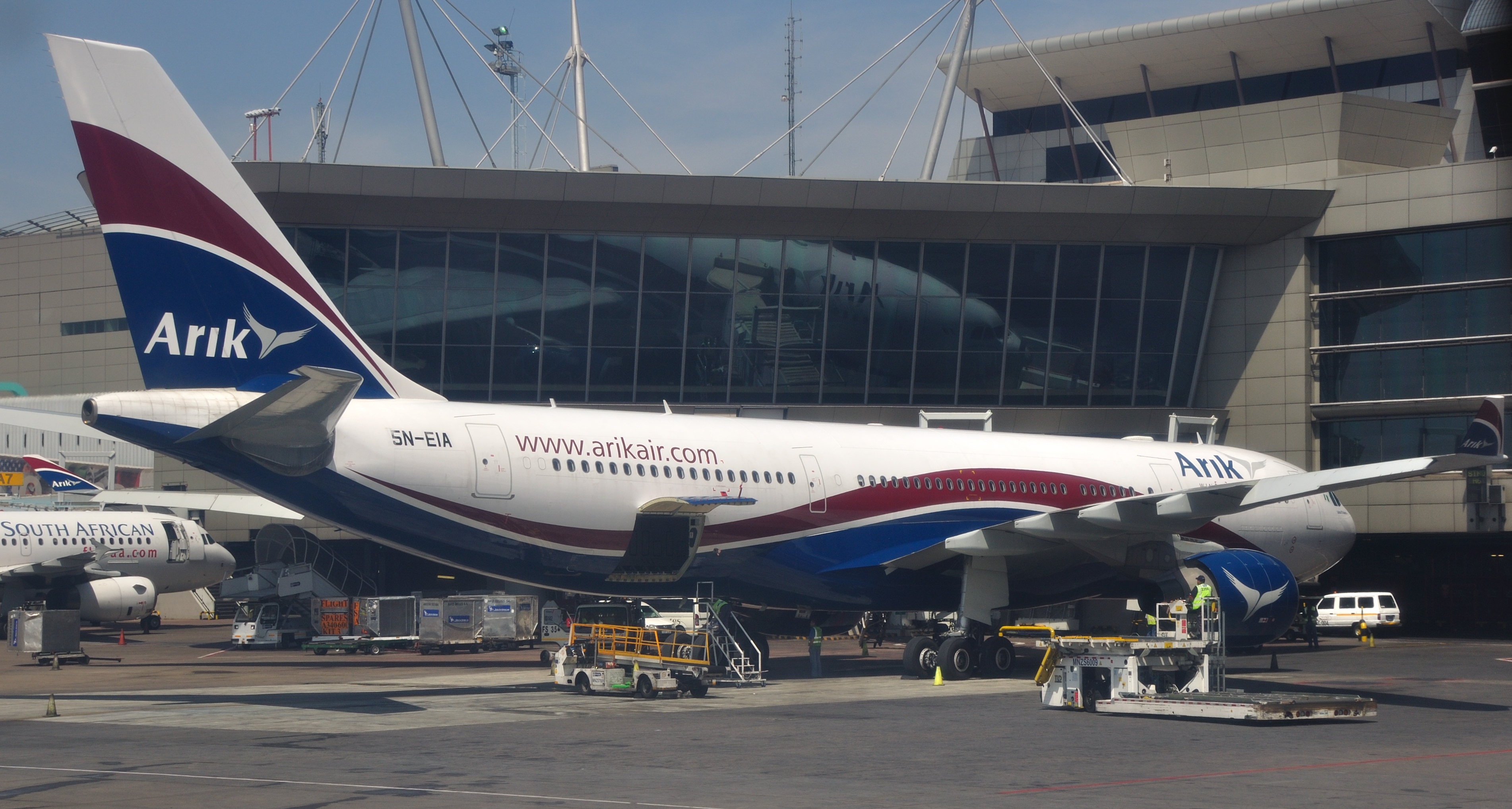 South Africa, Arik Air A330-223 at the gate of O.R. Tambo International Airport in Johannesburg